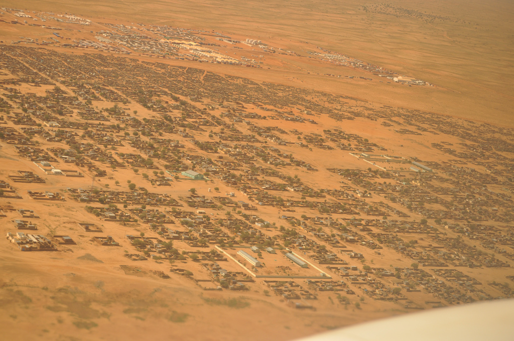 A view of El Fasher, Darfur, from above.